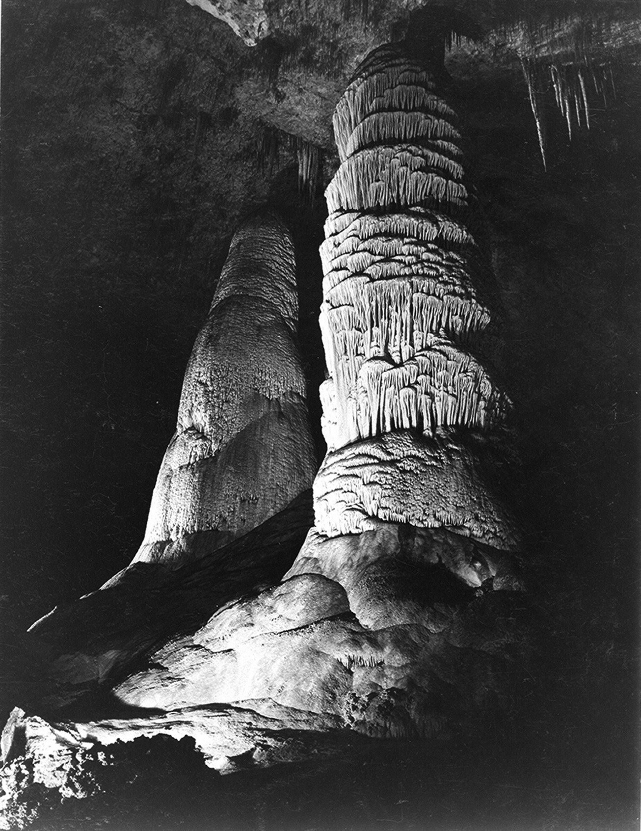 79-AAW-7 "The Giant Dome, largest stalagmite thus far discovered. It is 16 feet in diameter and estimated to be 60 million years old. Hall of Giants, Big Room." Carlsbad Caverns 1942, Ansel Adams -May need an ultra high resolution scan to do justice to this print -Mak 04:54, 4 April 2006 (UTC)